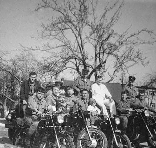 WOP post in Gościce